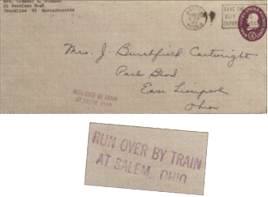 An old crash cover (postal stationery) of the United States, with a postal marking "Run over by train at Salem, Ohio".